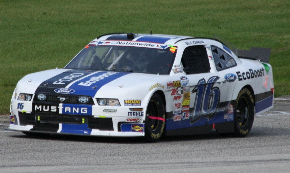 The NASCAR Nationwide car of Billy Johnson during the w:2013 Johnsonville Sausage 200 at Road America.